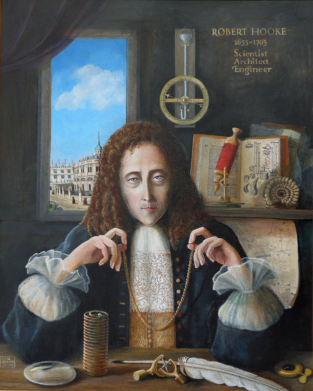 'Robert Hooke, Engineer'. A memorial portrait presented to the Department of Engineering Science at Oxford University in 2009. It shows Hooke in Oxford with important work – a wheel barometer, his microscope and copy of 'Micrographia', a pocket watch, optic, spring and universal joint. He is holding a chain to make a catenary arch and on the wall behind him is a map of the City of London which he helped to survey and rebuild after the Great Fire of 1666.